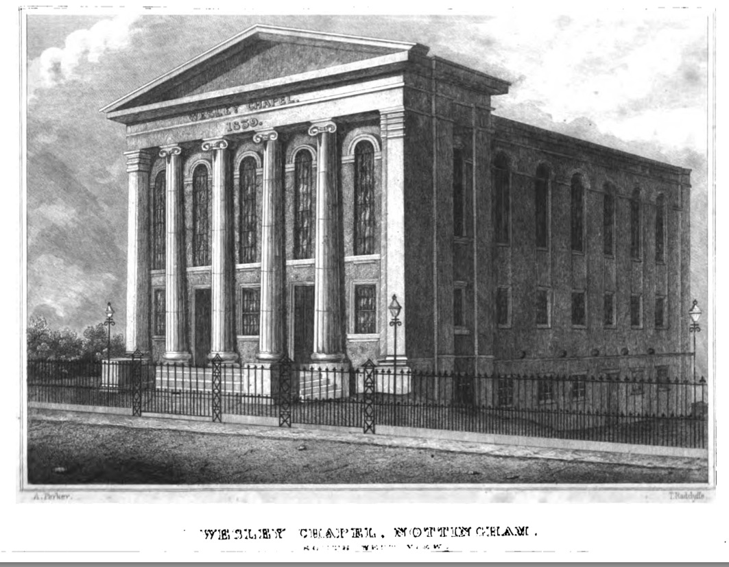 Broad Street Wesley Chapel, Nottingham